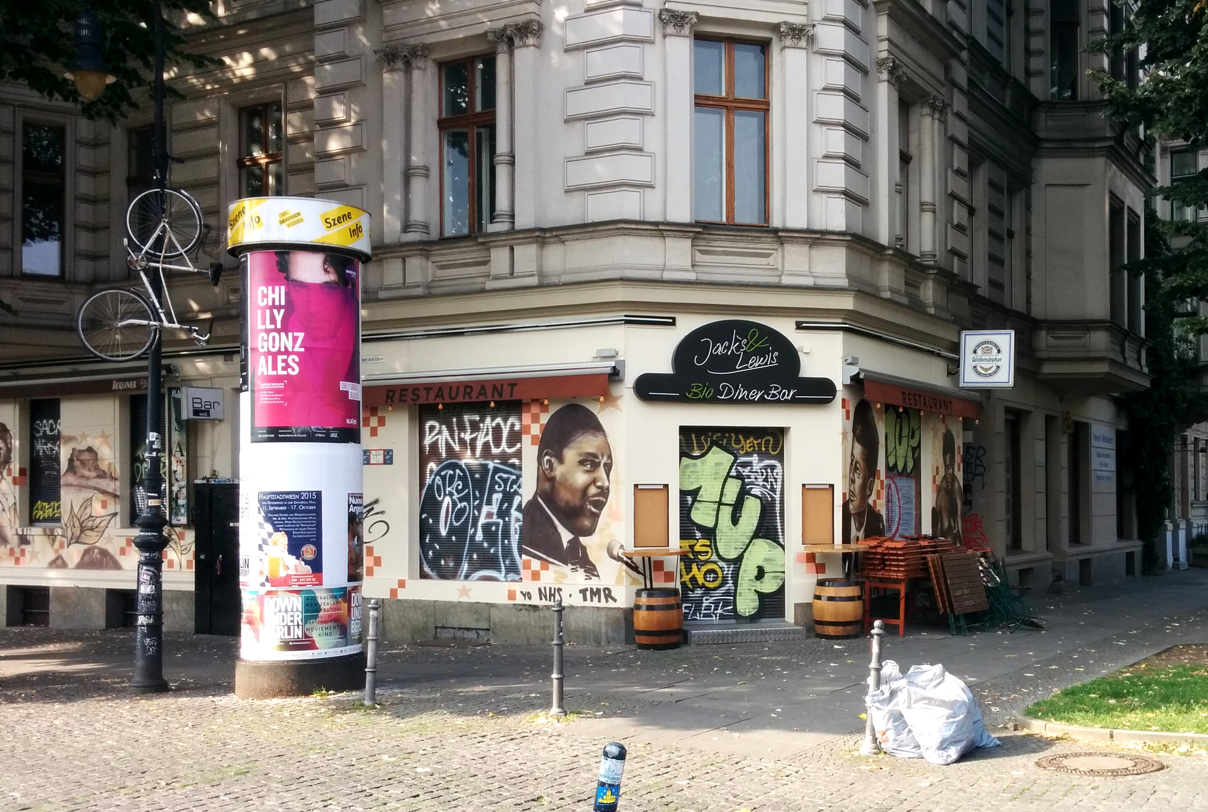 Corner pub at Skalitzer Str. 46B, Berlin (Kreuzberg). When this picture was taken, the advertised business was not operating yet, it was scheduled to be opened in October.